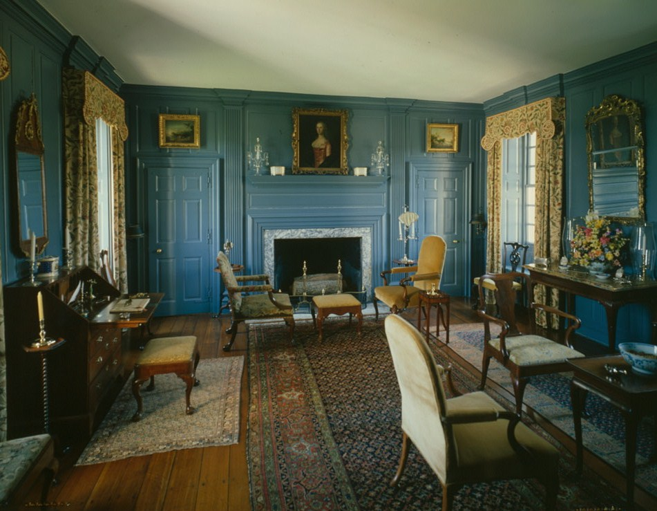 Toddsbury, Vicinity of State Routes 622 & 3-14 Intersection, Nuttall vicinity (Gloucester County, Virginia) cropped This file comes from the Historic American Buildings Survey (HABS), Historic American Engineering Record (HAER) or Historic American Landscapes Survey (HALS). These are programs of the National Park Service established for the purpose of documenting historic places. Records consist of measured drawings, archival photographs, and written reports. This tag does not indicate the copyright status of the attached work. A normal copyright tag is still required. See Commons:Licensing for more information. This work is in the public domain in the United States because it is a work prepared by an officer or employee of the United States Government as part of that person’s official duties under the terms of Title 17, Chapter 1, Section 105 of the US Code. See Copyright. Note: This only applies to original works of the Federal Government and not to the work of any individual U.S. state, territory, commonwealth, county, municipality, or any other subdivision. This template also does not apply to postage stamp designs published by the United States Postal Service since 1978. (See § 313.6(C)(1) of Compendium of U.S. Copyright Office Practices). It also does not apply to certain US coins; see The US Mint Terms of Use. This file has been identified as being free of known restrictions under copyright law, including all related and neighboring rights. Object location37° 26′ 00″ N, 76° 27′ 09″ W